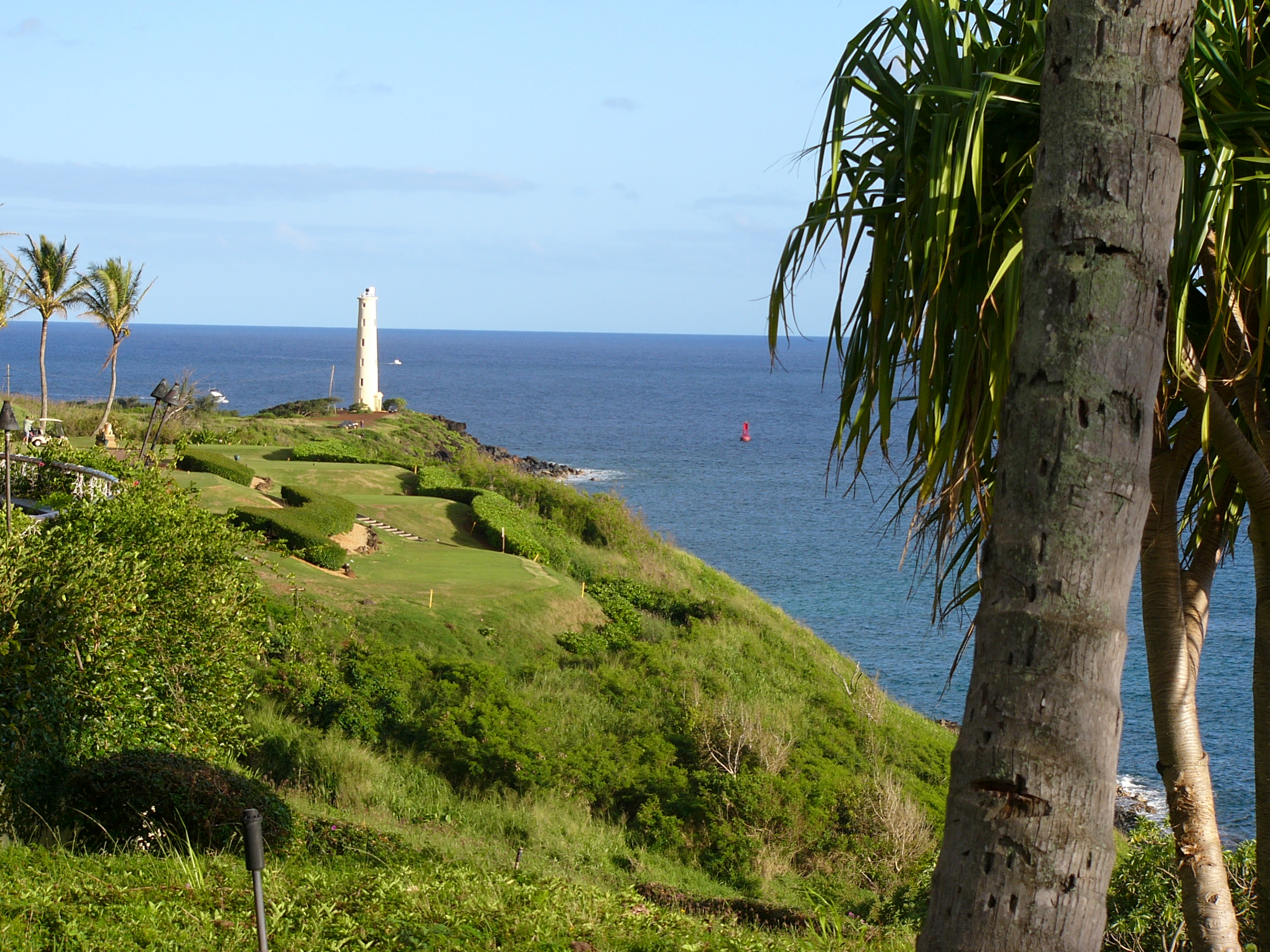 Ninini Lighthouse overlooking Kauai Lagoons G.C.